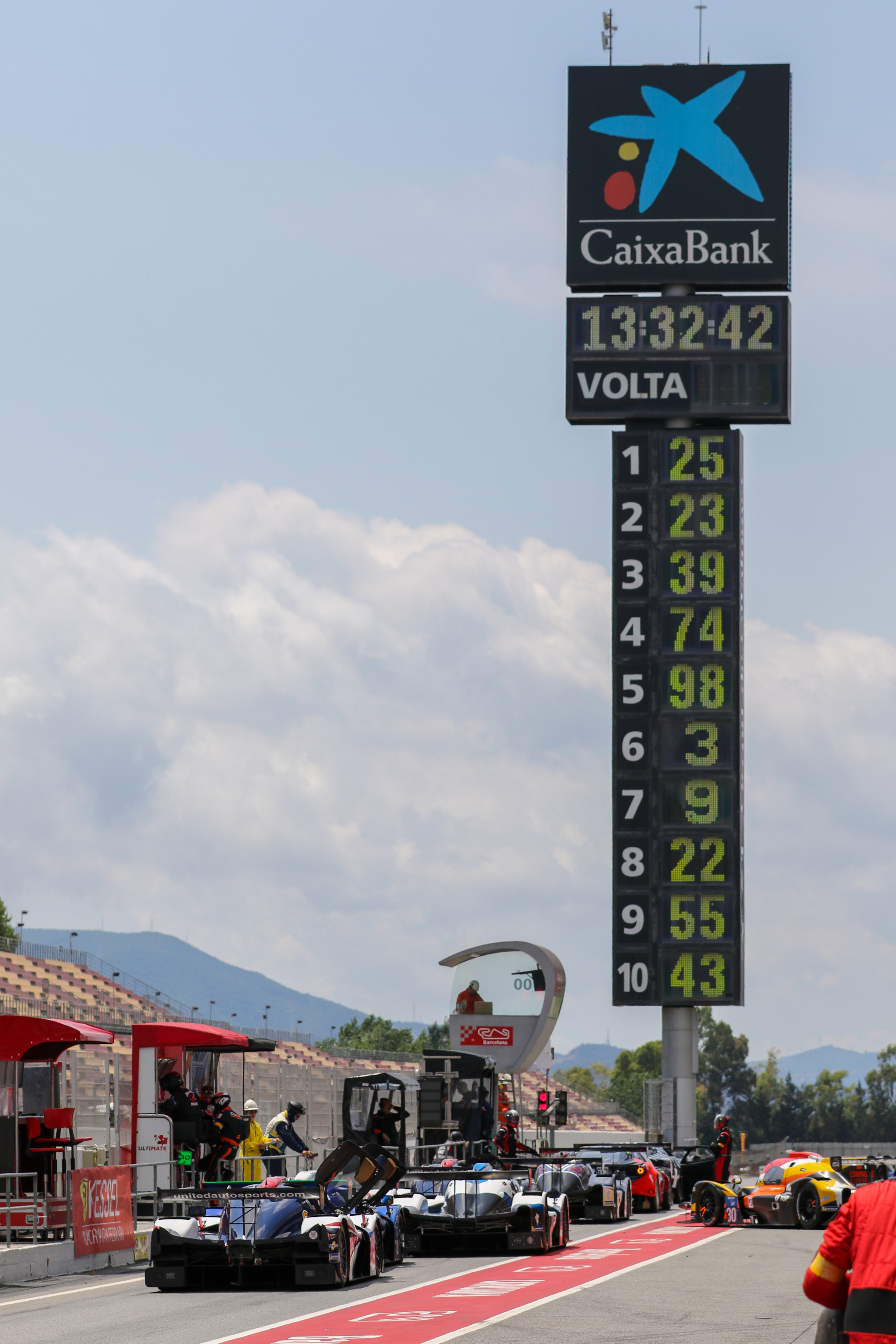 2019 4 Hours of Barcelone - Pitlane